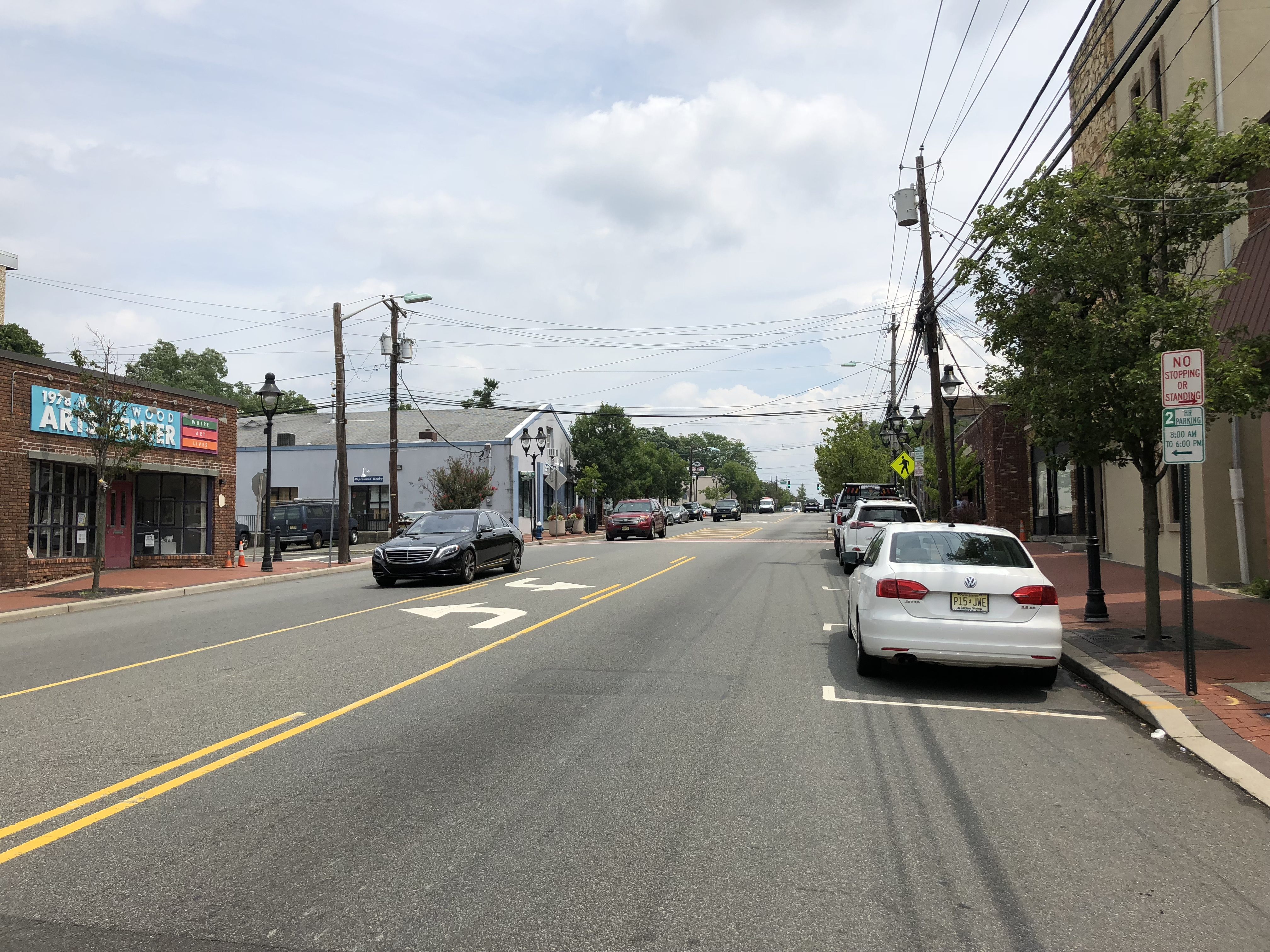 View east along New Jersey State Route 124 (Springfield Avenue) between Laurel Avenue and Broadview Avenue in Maplewood Township, Essex County, New Jersey